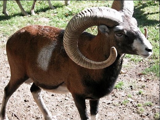 Mufflon (Ovis orientalis musimon)